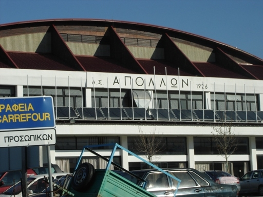 Apollon Patras Idoor Hall, Greece